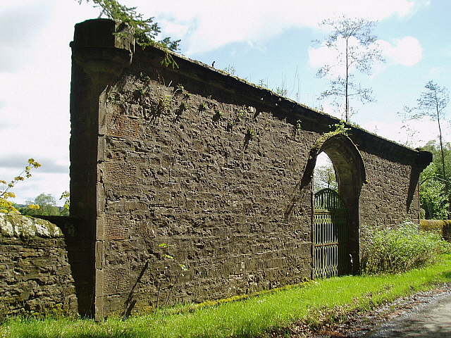 According to the OS map, a track leads from the other side of this gateway to the site of Lanrick Castle (now demolished). The main entrance to the castle is further to the east at NN6902